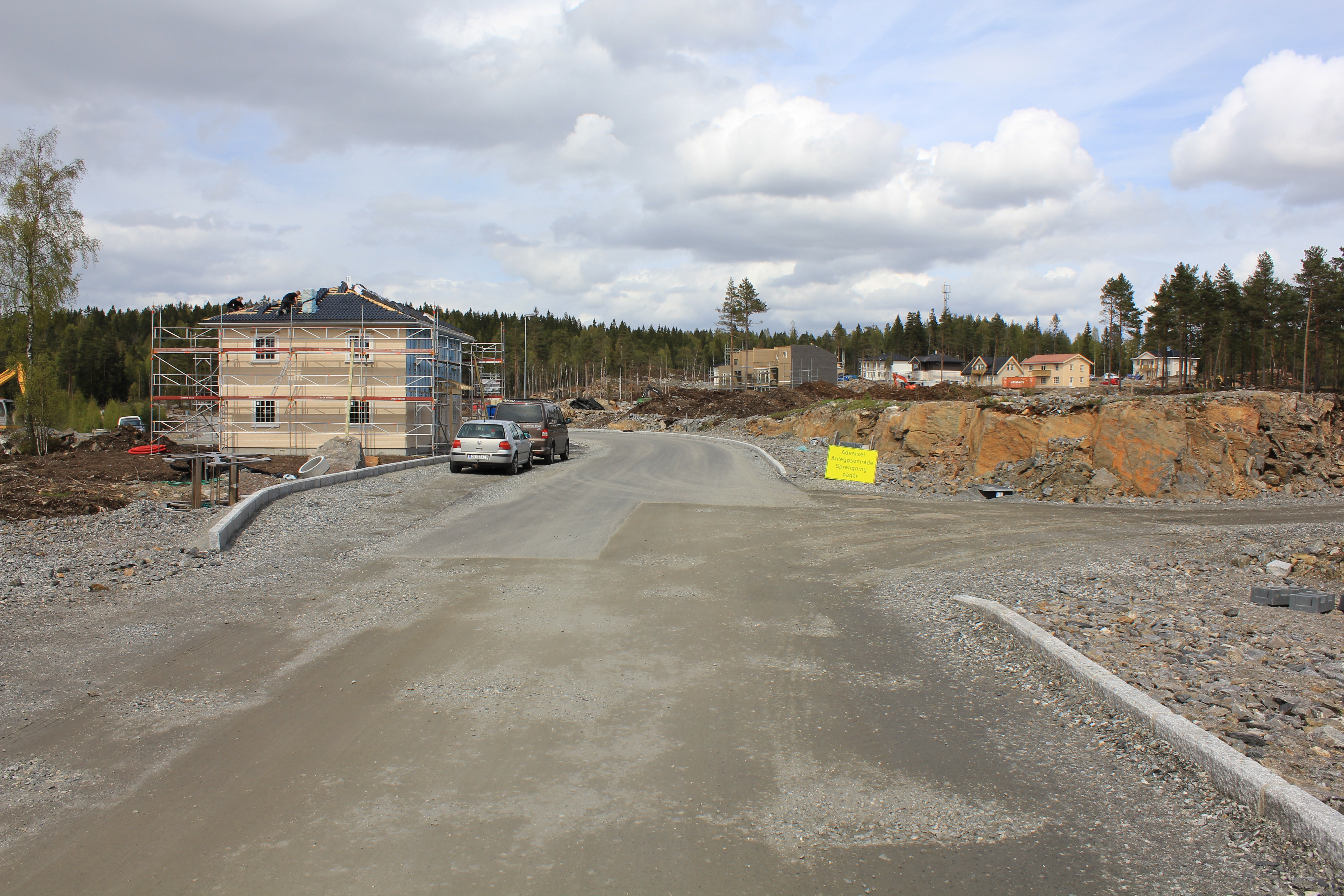 Suburban construction at Garderåsen near Oslo.